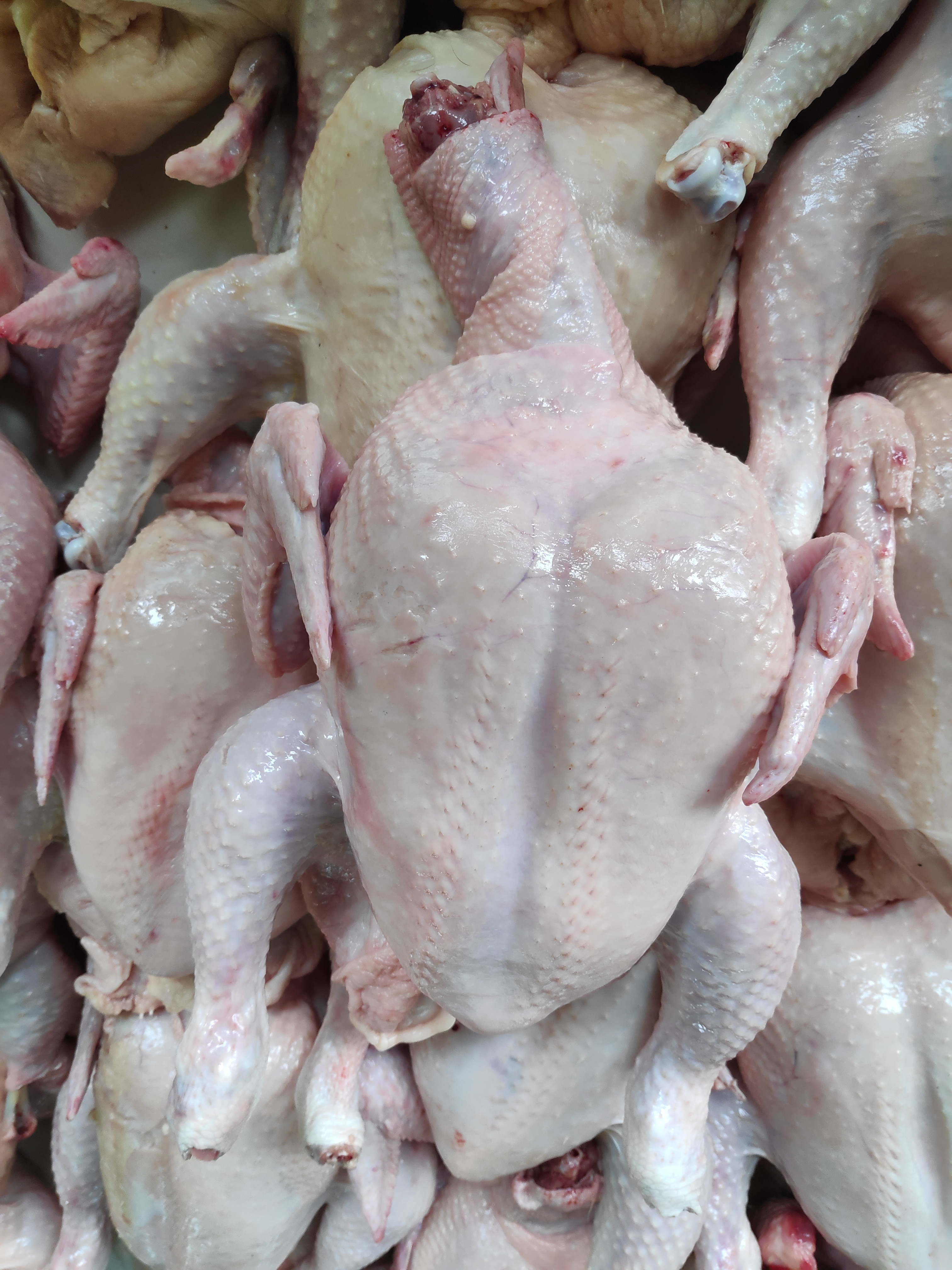 Chicken for meat.